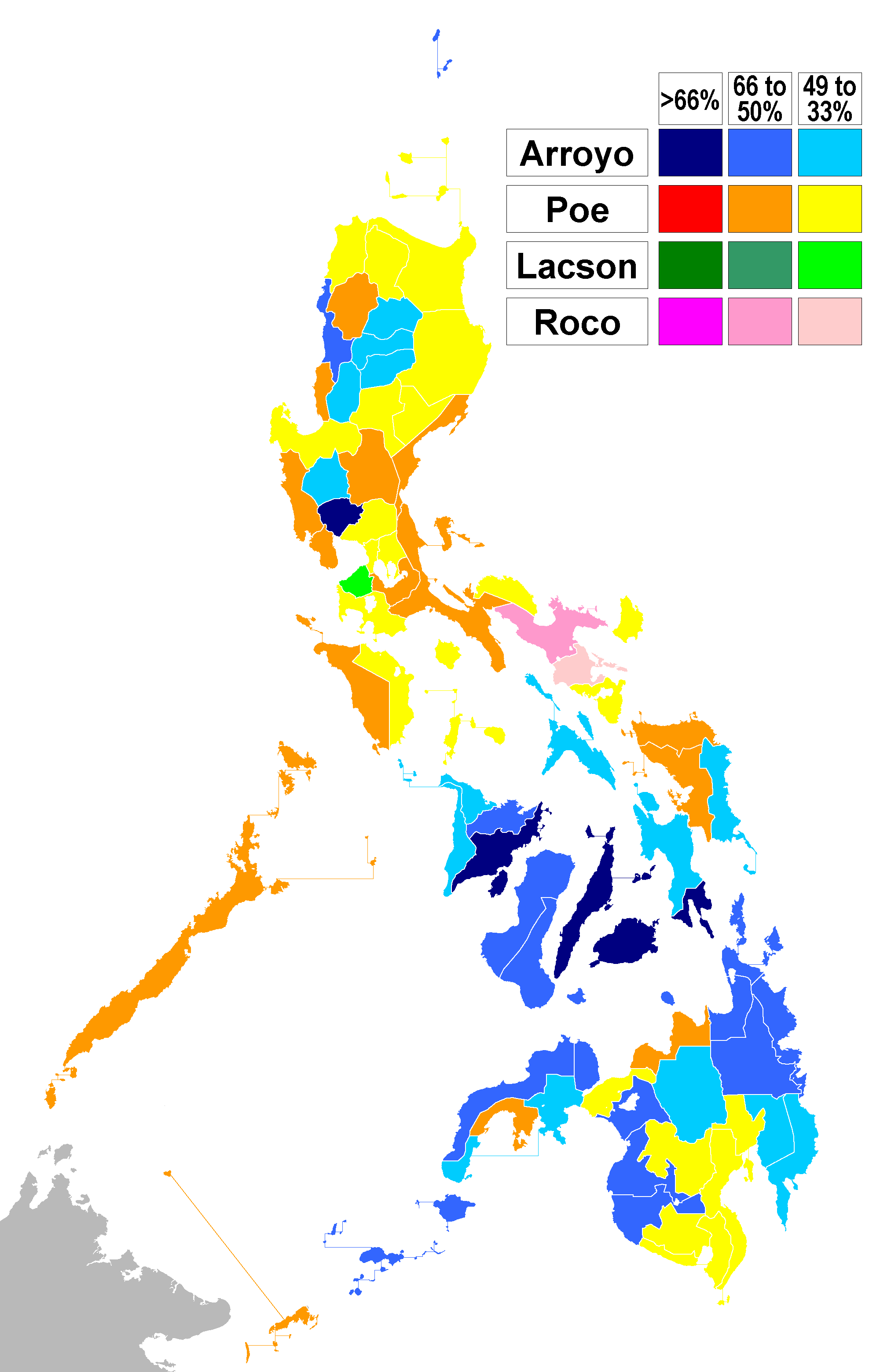 Percentages won by candidates in the Philippine general election.